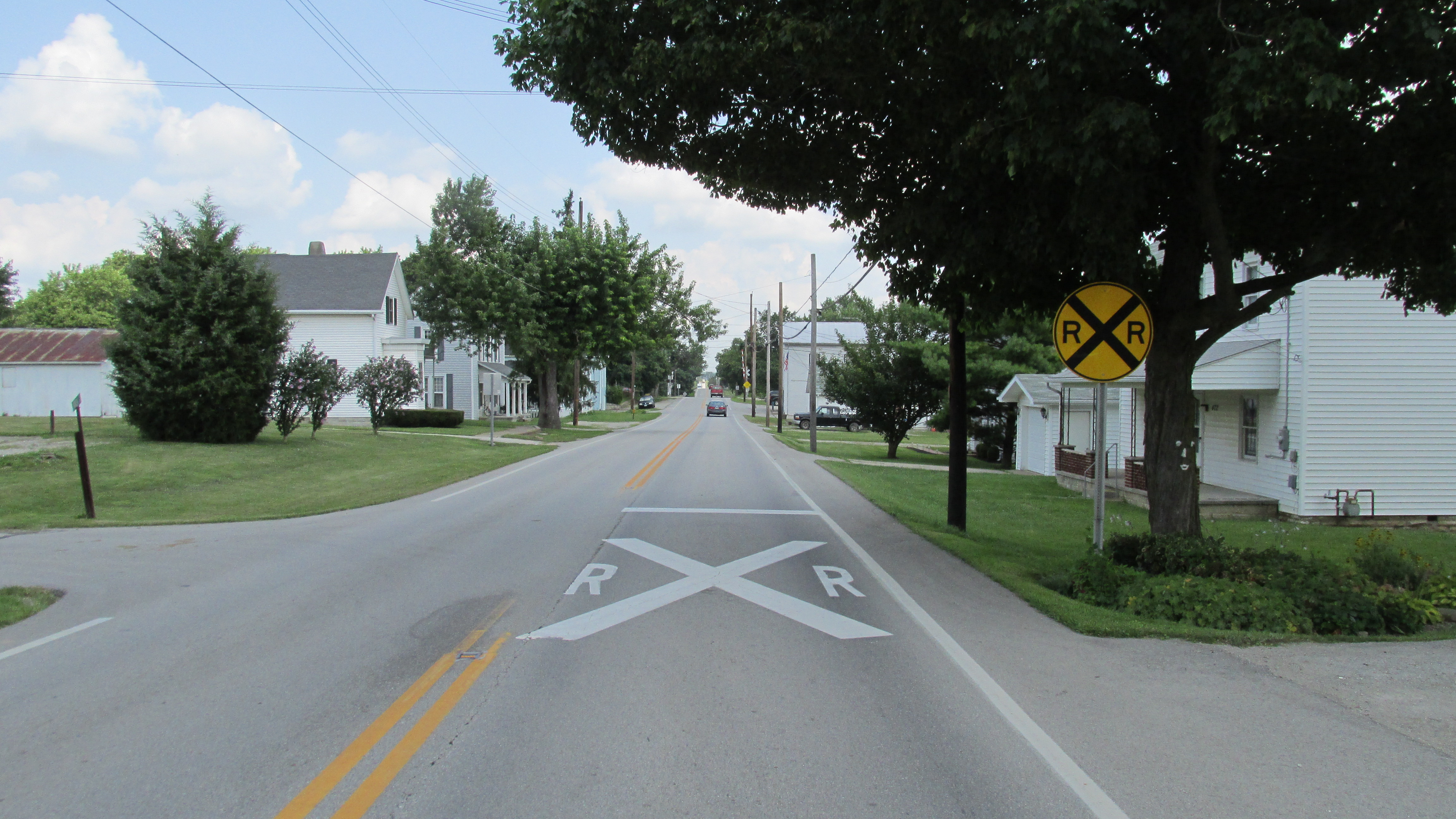 Looking north on Ohio Highway 72 in Reesville.